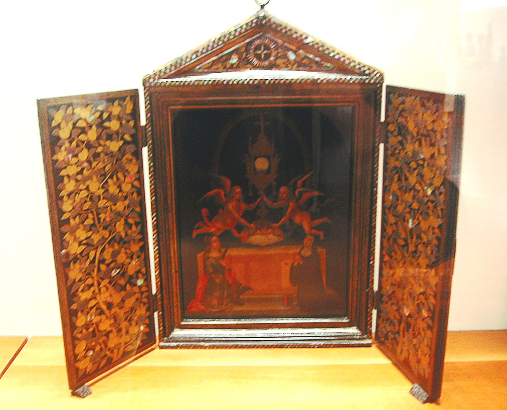 A Japanese Votive Altar. Nanban art. End of 16th century. Musée Guimet. Personal photograph.